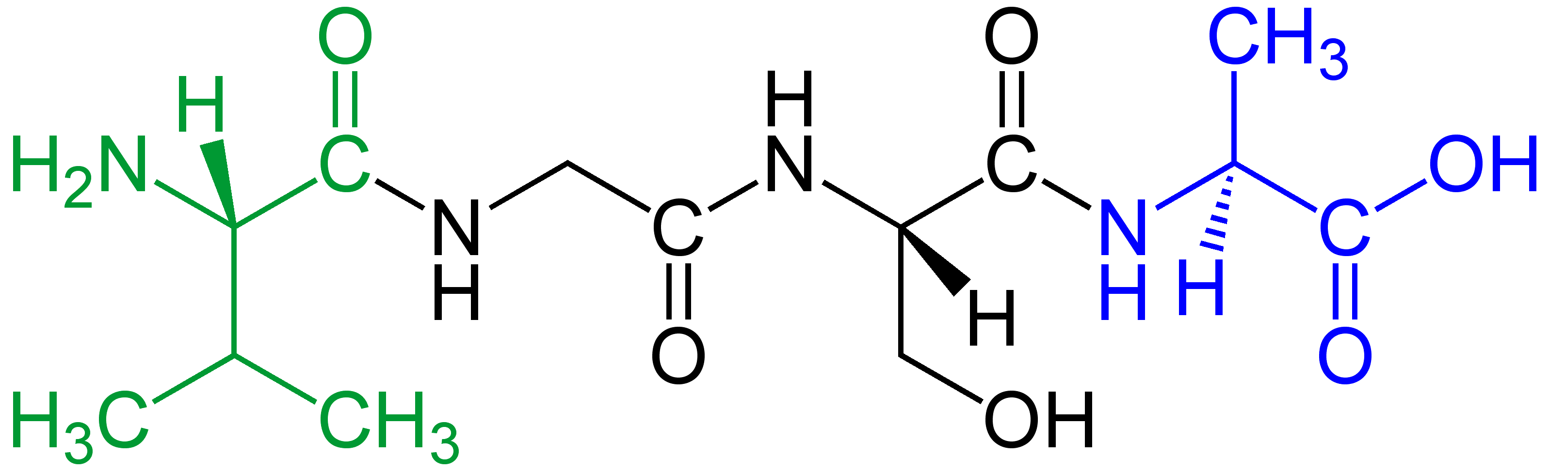 Tetrapeptide structural formulae N-terminus (Green) (N-terminus) and C-terminus (Blue) (C-terminus)